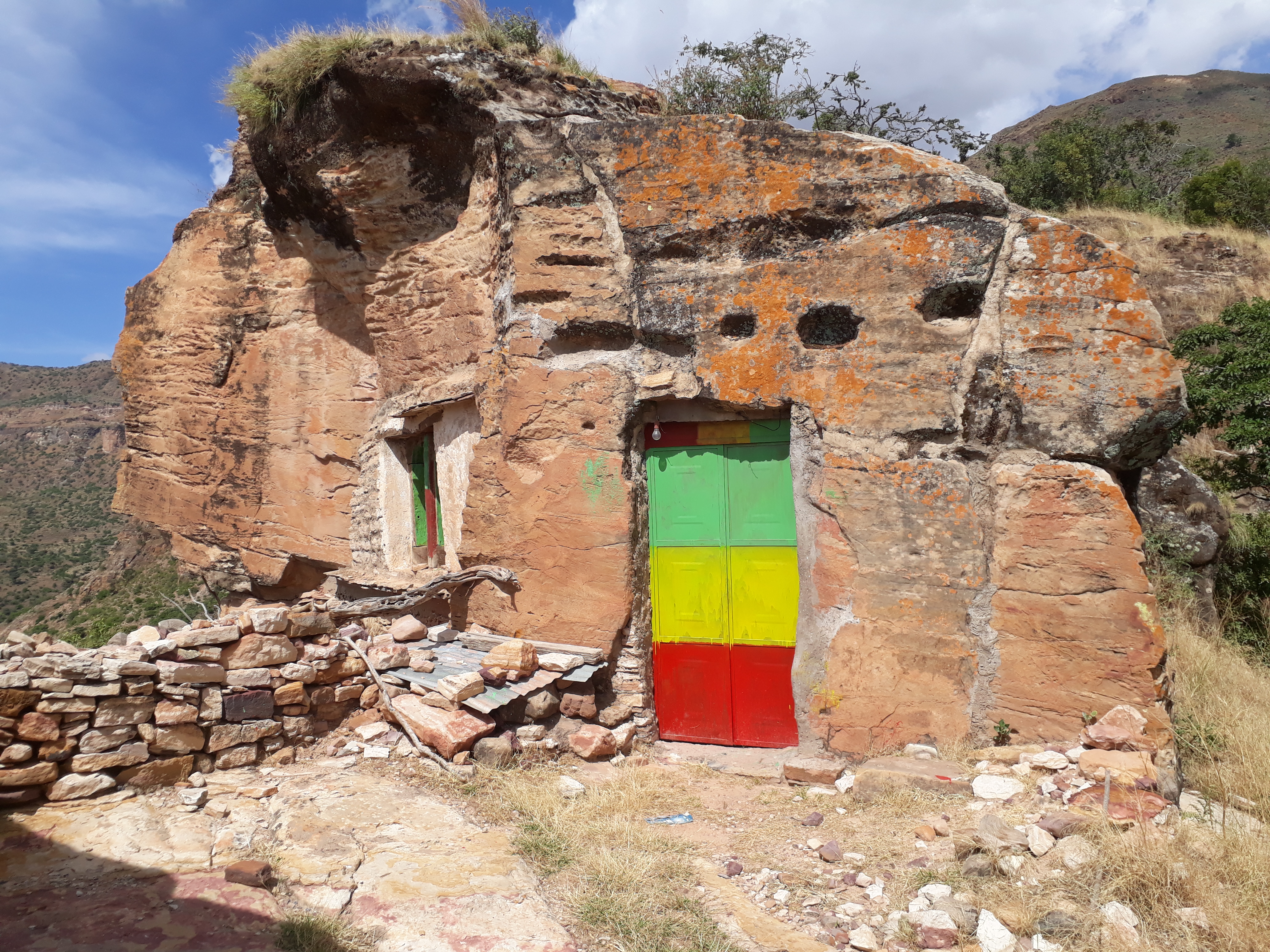 Debre Sema'it rock chuch